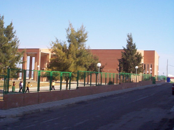 Sta. Teresa School of Estepa, in Sevilla